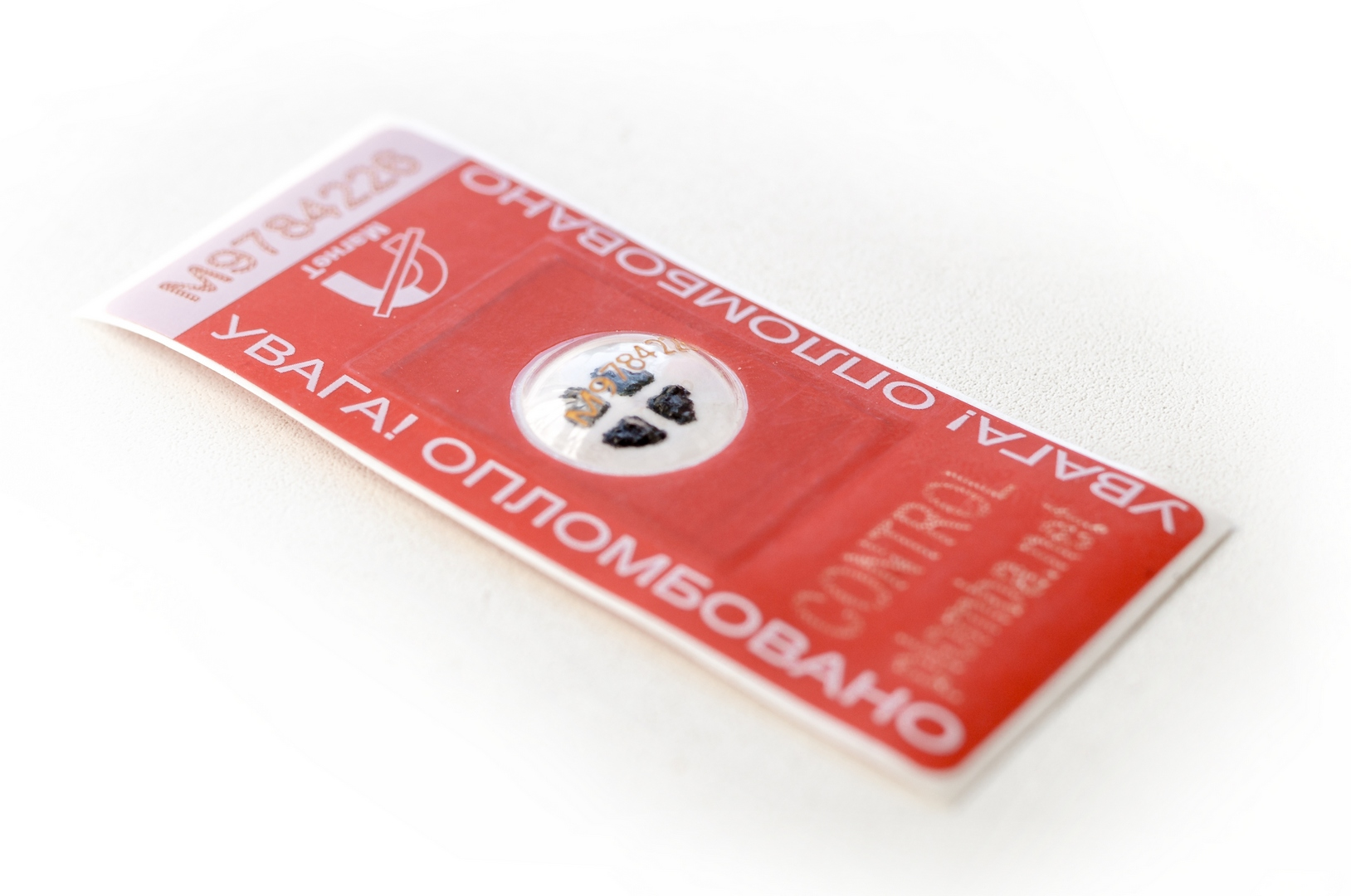 Приклад антимагнітноъ пломби компанії "GST Group"